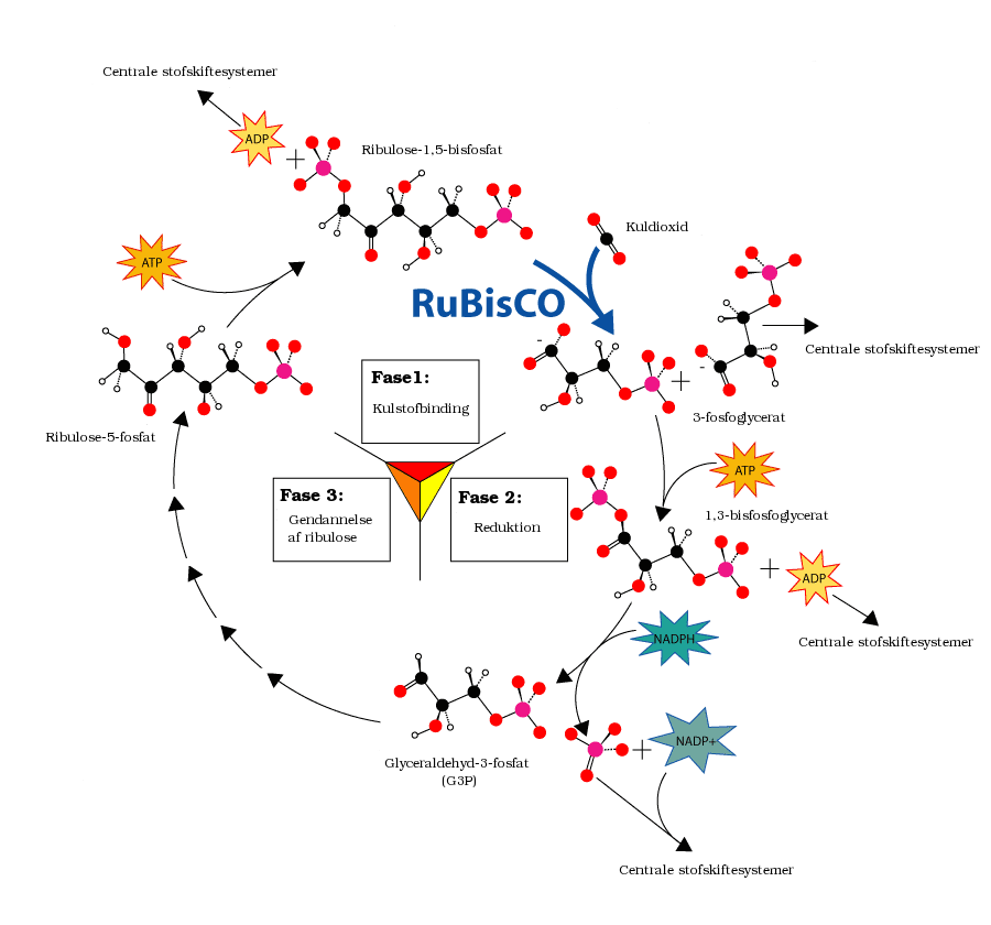 Overview of the Calvin Cycle pathway. Original work by Mike Jones User:Adenosine Also see C4 Carbon Fixation here. This image was copied from en. The original description was: Modified version of Image:Calvin-cycle2.png Balls represent atoms according to the following: * Black is carbon. * White is hydrogen. * Red is oxygen. * Pink is phosphorus.